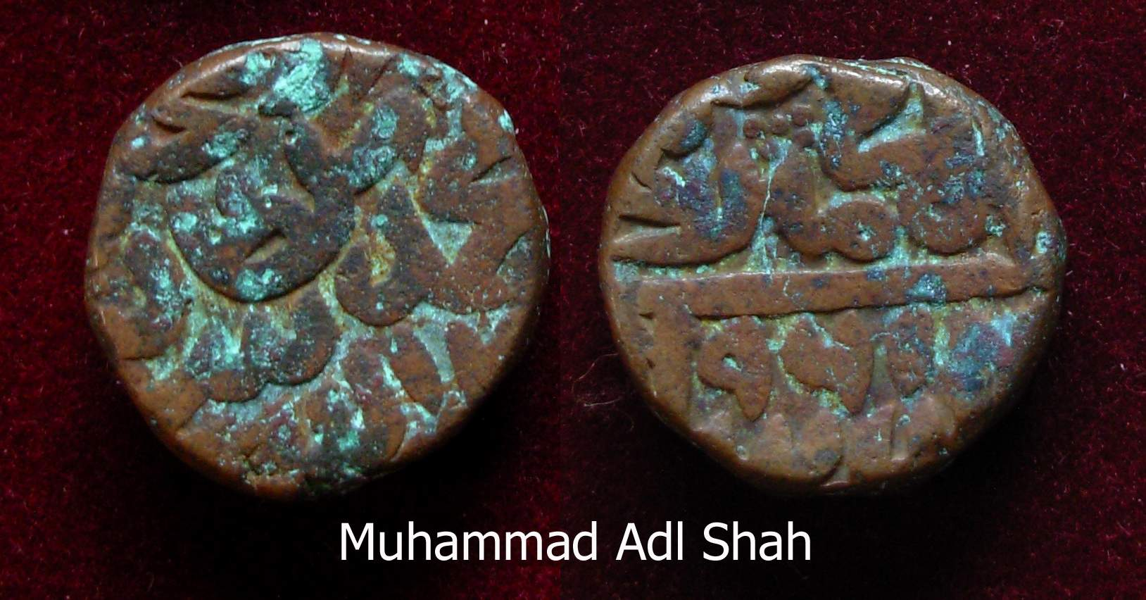 copper coin of Muhammad Adl Shah Suri.